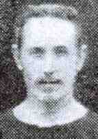 A photograph of George Ramsay.